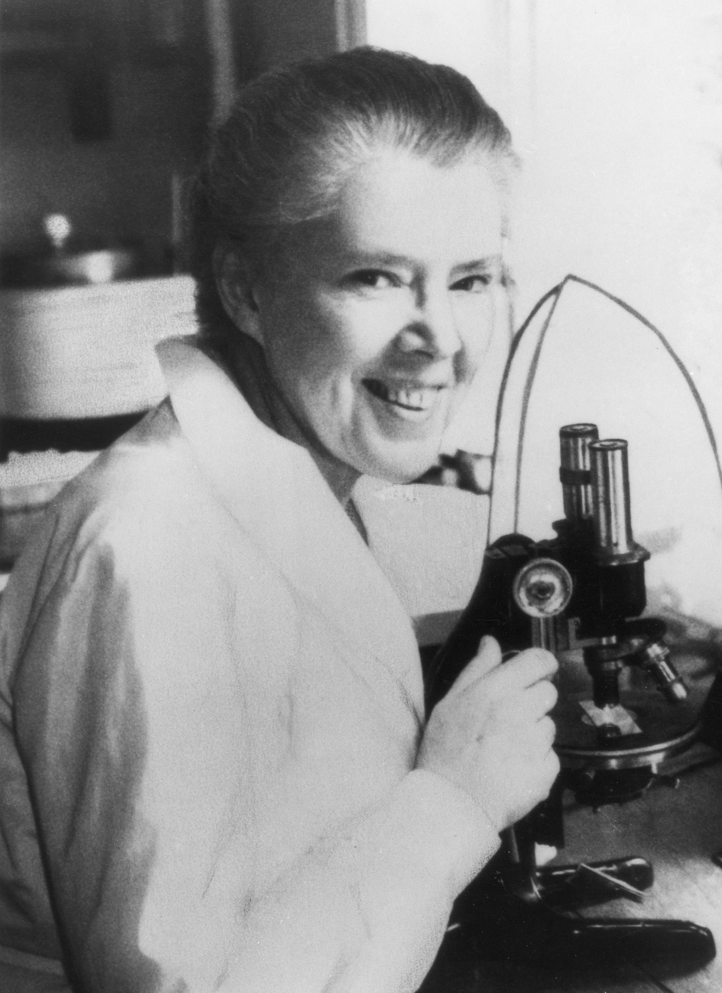 Honor Fell at her microscope in her lab at Strangeways, Cambridge in the 1950s.